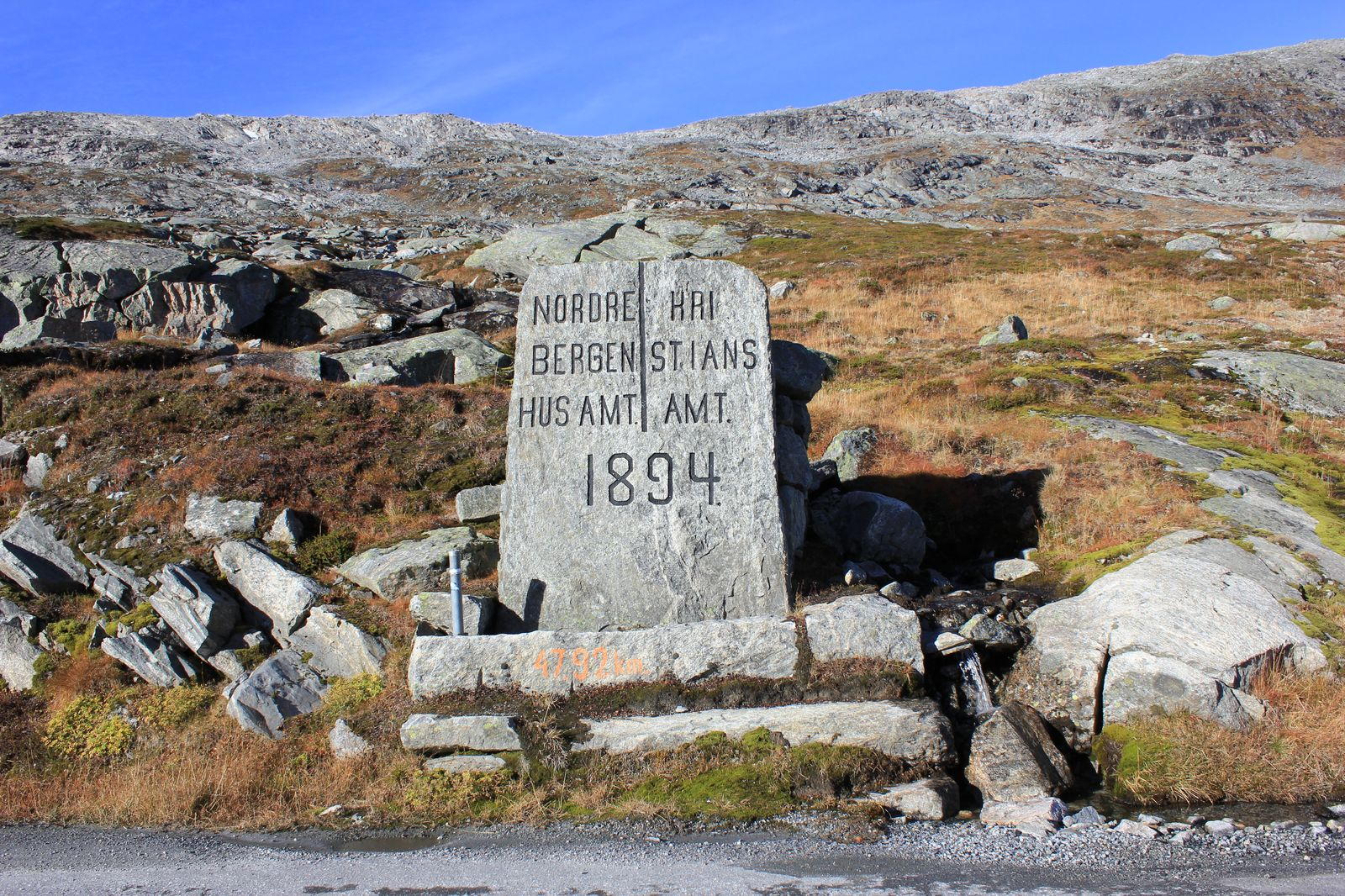 The old Strynefjell road